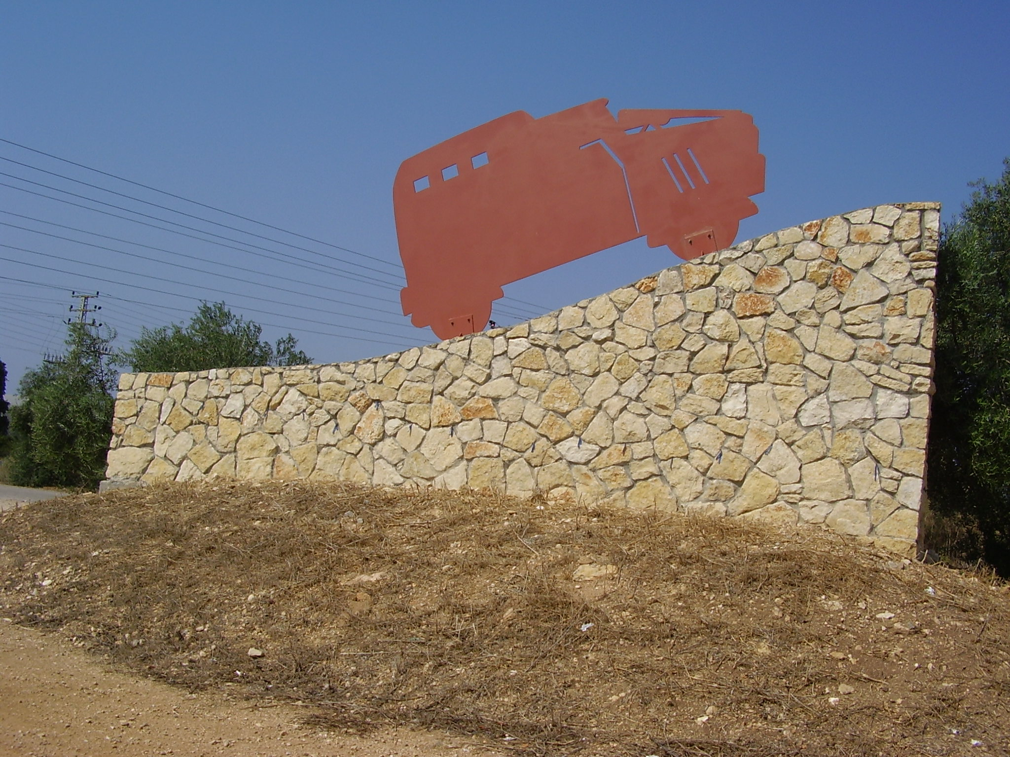 iron statue of armoured vehicle at the entrance of yechiam convoy memorial site